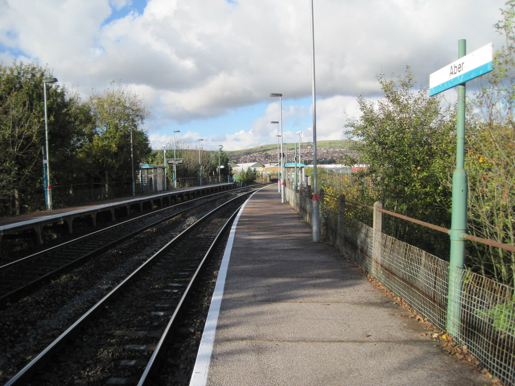 Aber railway station, GwentOpened in 1908 as "Beddau" by the Rhymney Railway on its line from Cardiff to Rhymney, this station was renamed "Aber Junction" in 1926 and became just "Aber" in 1968. View north west towards Llanbradach and Rhymney.